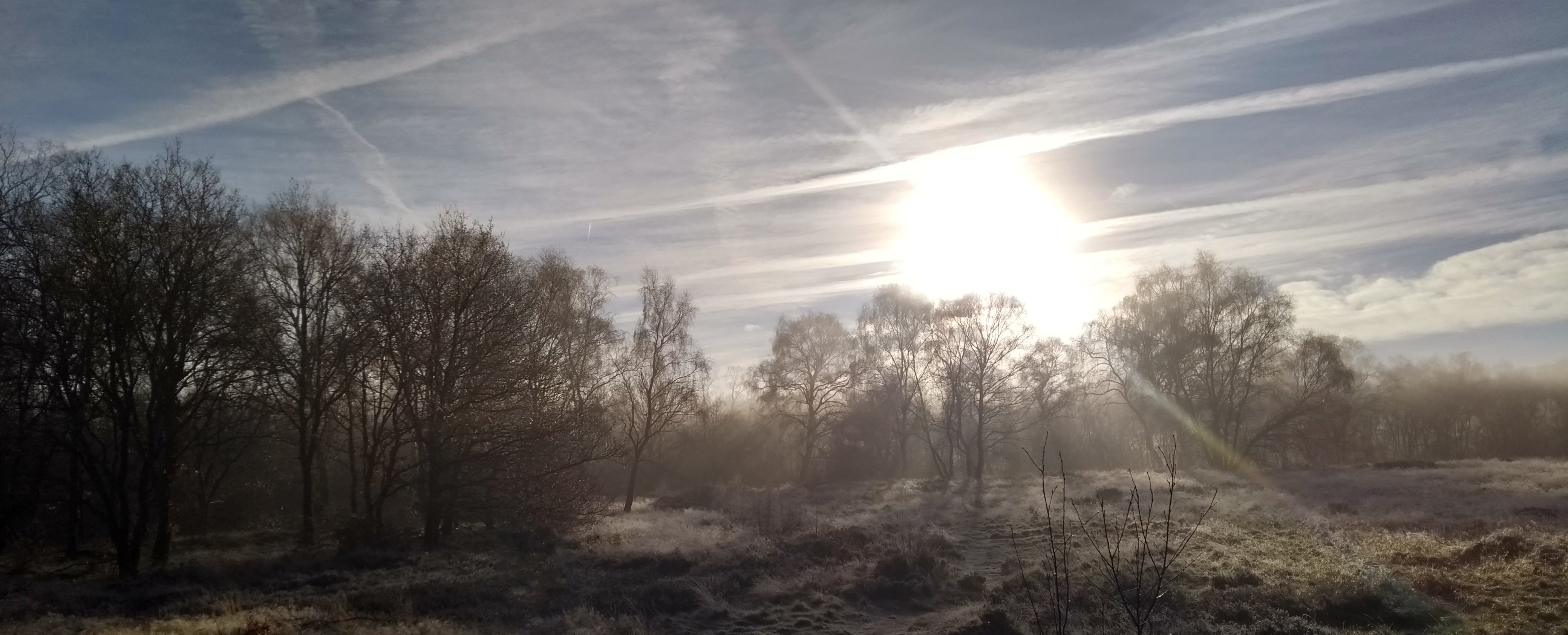 A glade in Sherwood Forest, Nottinghamshire, taken on a frosty morning in December 2018.